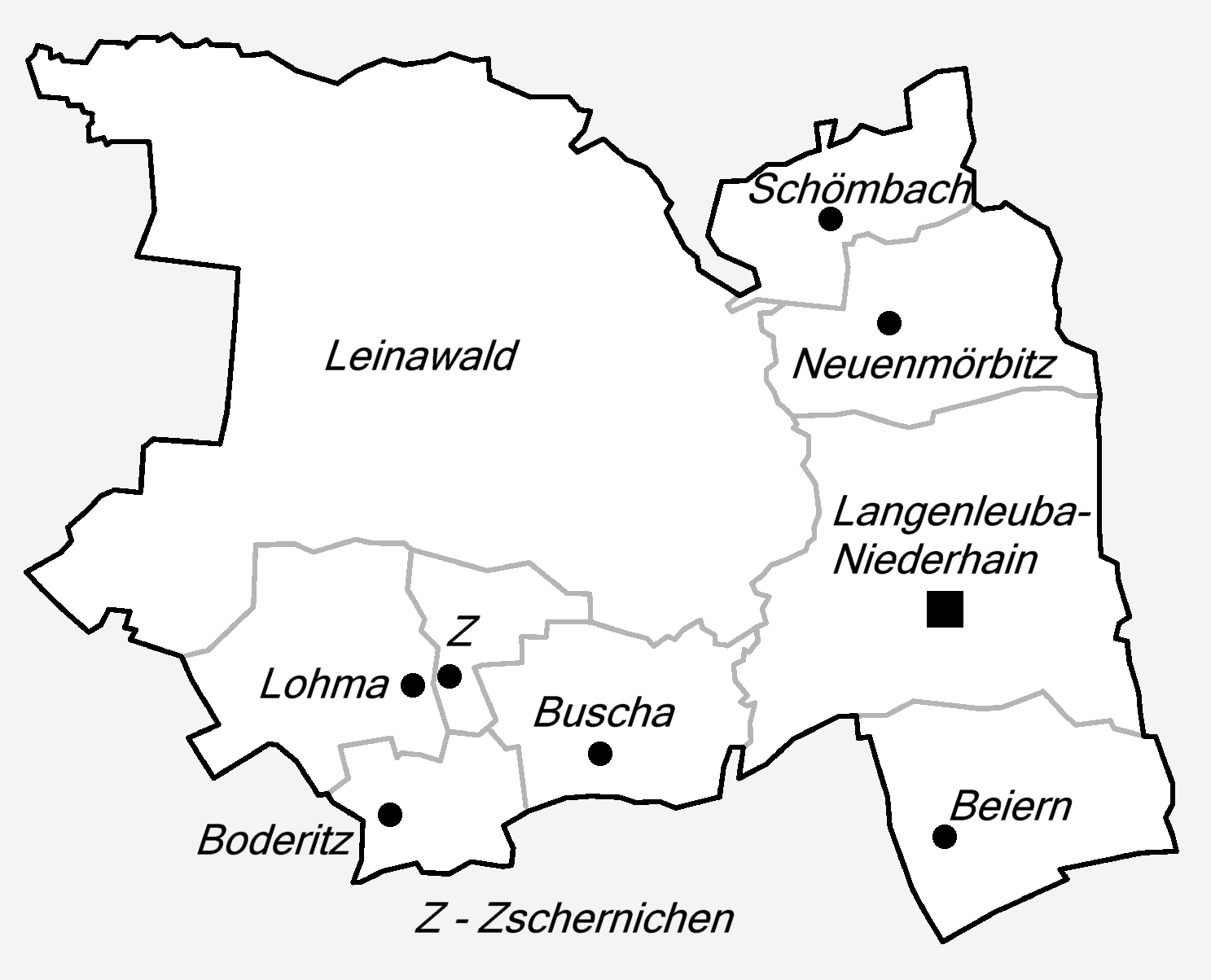 District-Maps of Langenleuba-Niederhain.